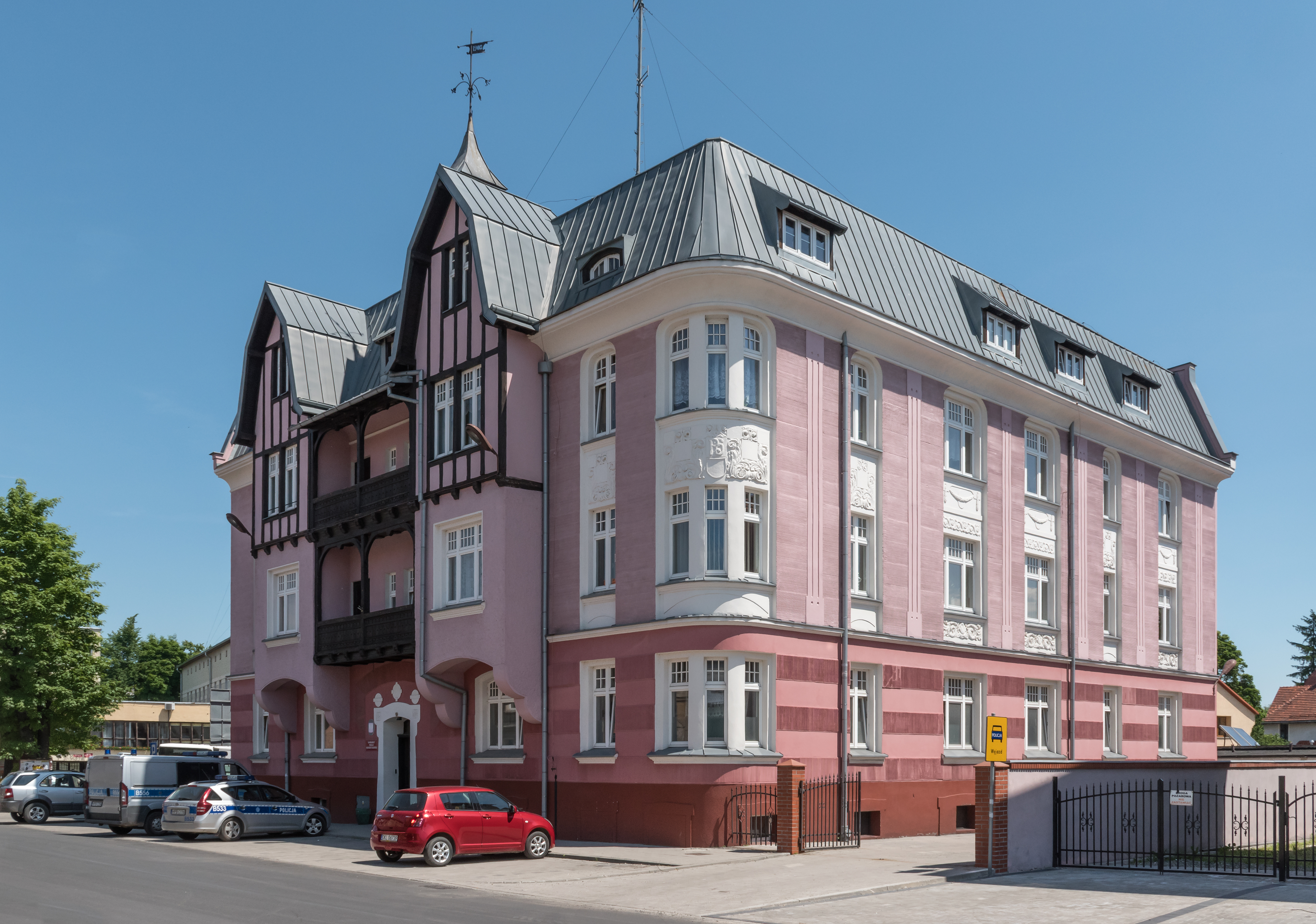 Police station in Bystrzyca Kłodzka